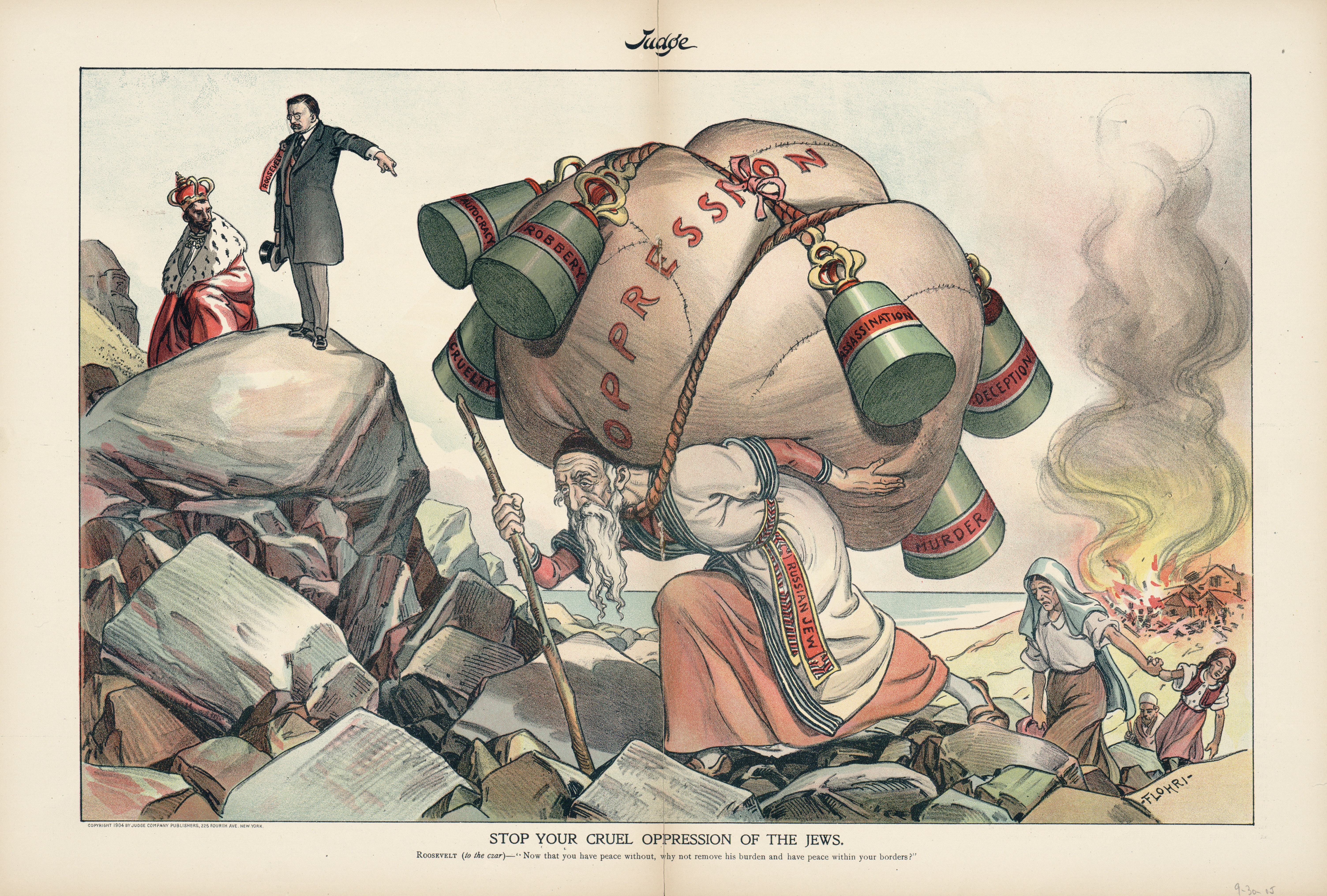 USA to Russian Tsar: Stop Your Cruel Oppression of the Jews, 1904. Chromolithograph. From the source page [1]: In this print, which appeared after a 1903 pogrom in Kishinev, a "Russian Jew" carries on his back a large bundle labeled "Oppression;" hanging from the bundle are weights labeled "Autocracy," "Robbery," "Cruelty," "Assassination," "Deception," and "Murder." In the background, on the right, a Jewish community burns, while in the upper left corner, President Theodore Roosevelt asks the Emperor of Russia, Nicholas II, "Now that you have peace without, why not remove his burden and have peace within your borders?"